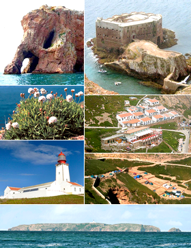 Berlenga Lighthouse, Berlenga Island, Peniche municipality, Leiria district, Portugal.